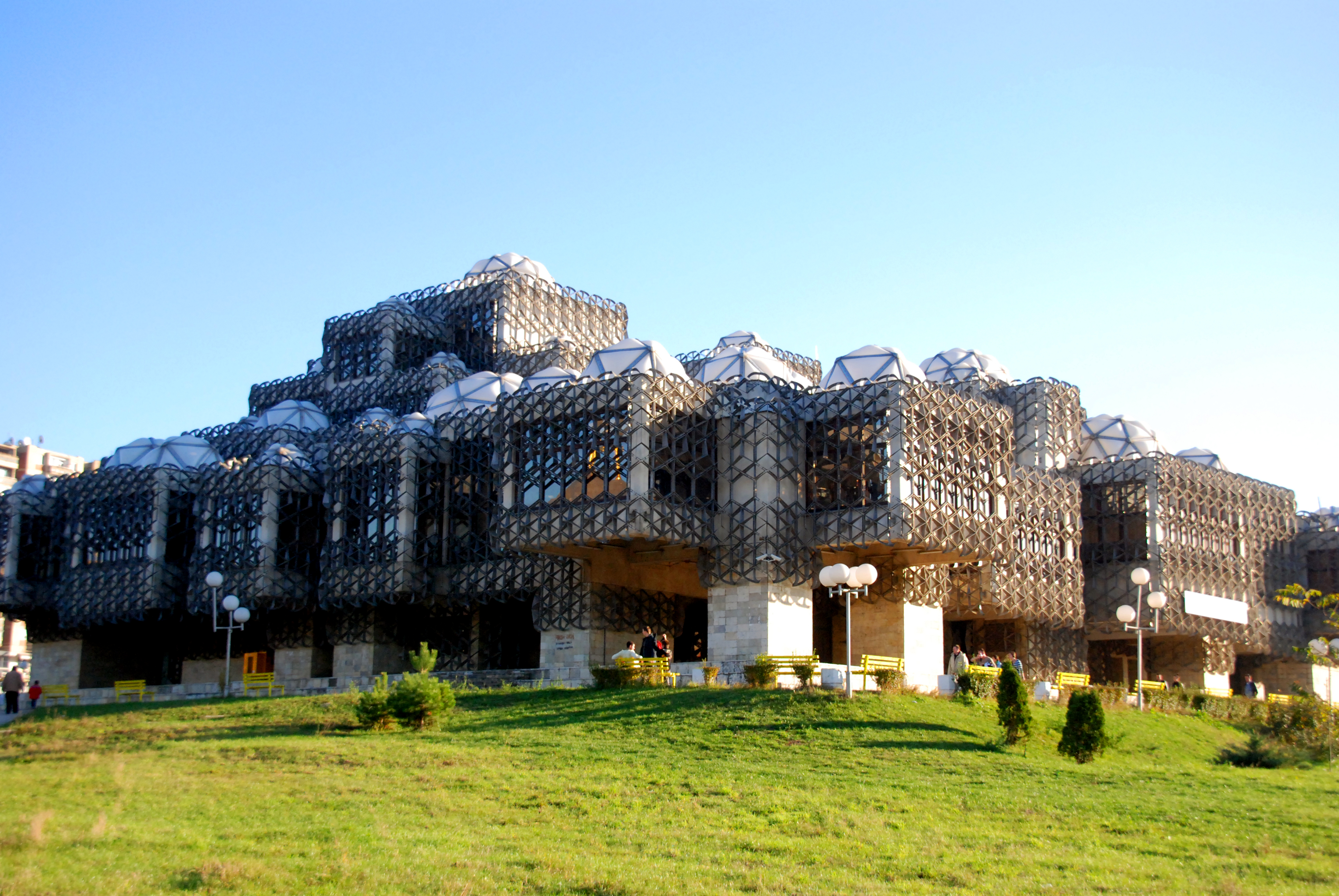 photo: Arian Selmani